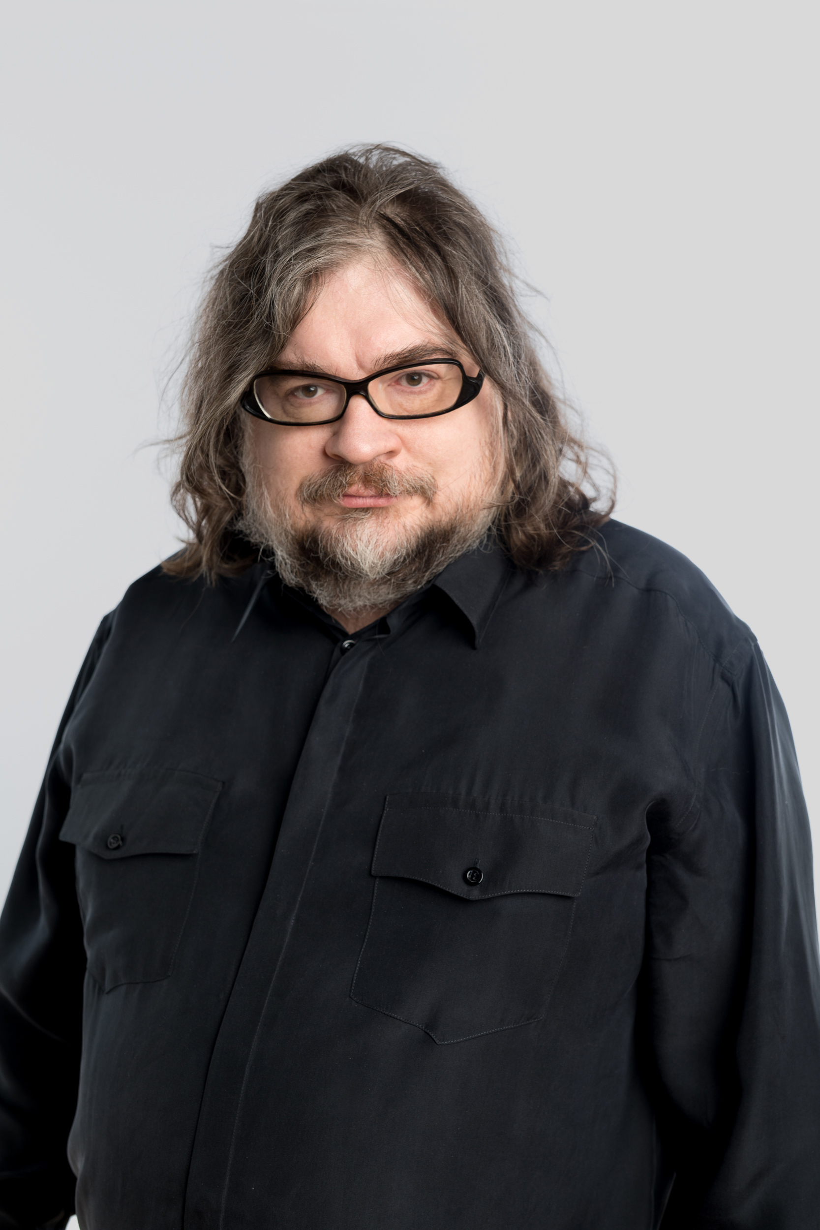 Anatoly Osmolovsky at Garage Museum of Contemporary Art, 2017